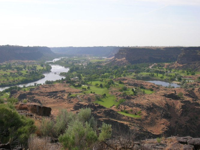 Snake River Canyon at Twin Falls, Idaho. Taken by Faustus37, 25 May 2006.